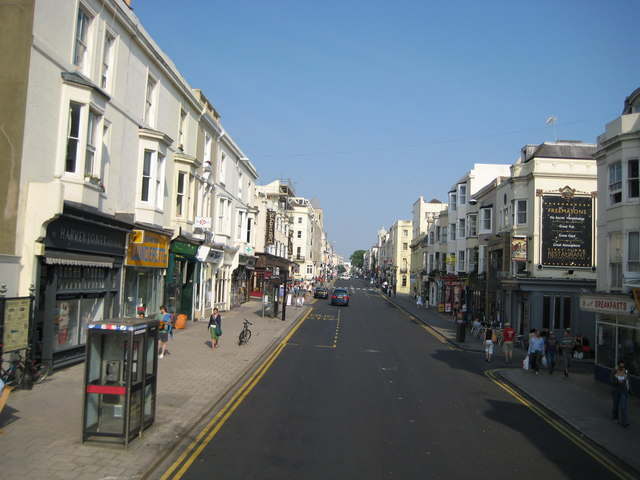 Hove: Western Road The Freemasons public house is on the right with Brunswick Street West in front of it. Western Road is also the B2066 through here.